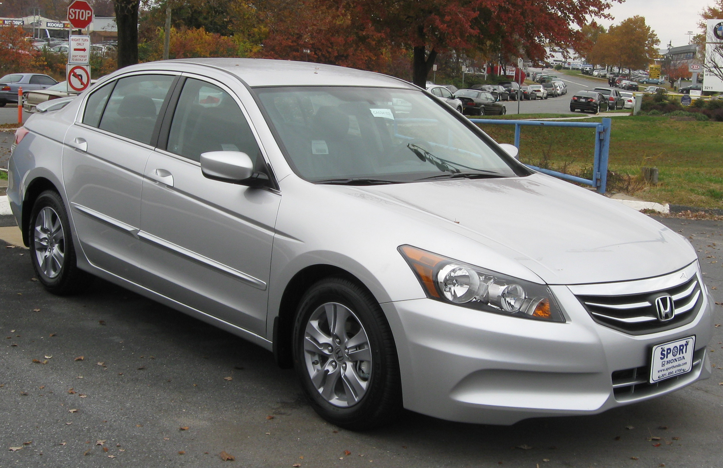 2012 Honda Accord photographed in Silver Spring, Maryland, USA.